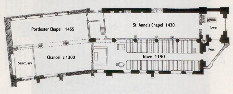 Plan of St. Audoen's church, Dublin, drawn up by architect Thomas Drew in 1866.